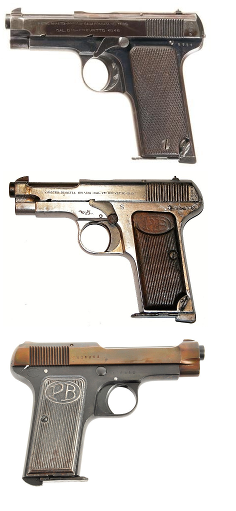 Beretta Model 1915 Series